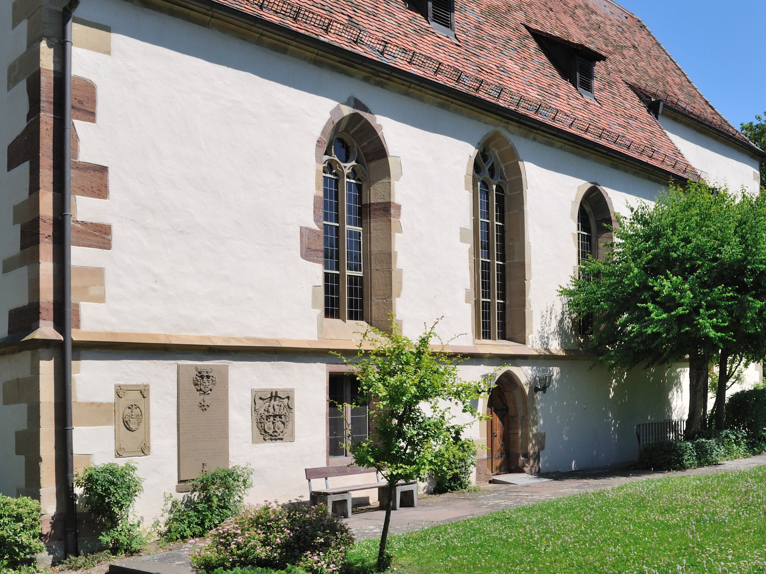 Konstanz church in Ditzingen, Baden-Württemberg, Germany. Entrance on the south side.